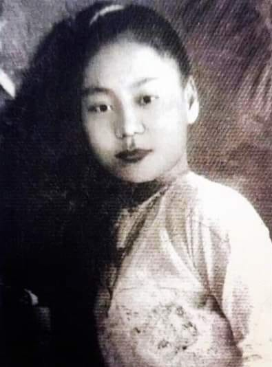 Ma Chit Po, Burmese spy and the only woman from Myanmar to be awarded the Thura Medal